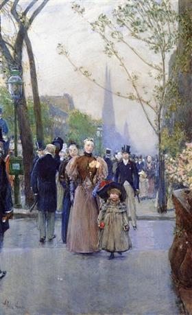 Work by Childe Hassam